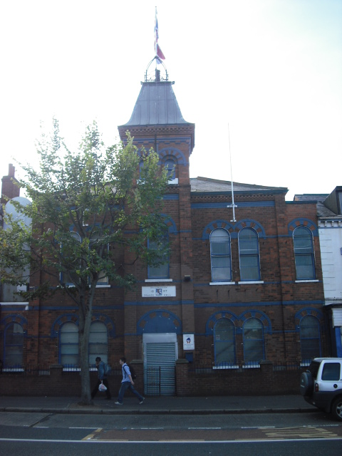 Ballynafeigh Orange Lodge, Ormeau Road, Belfast. Photographed on 17 September 2009.